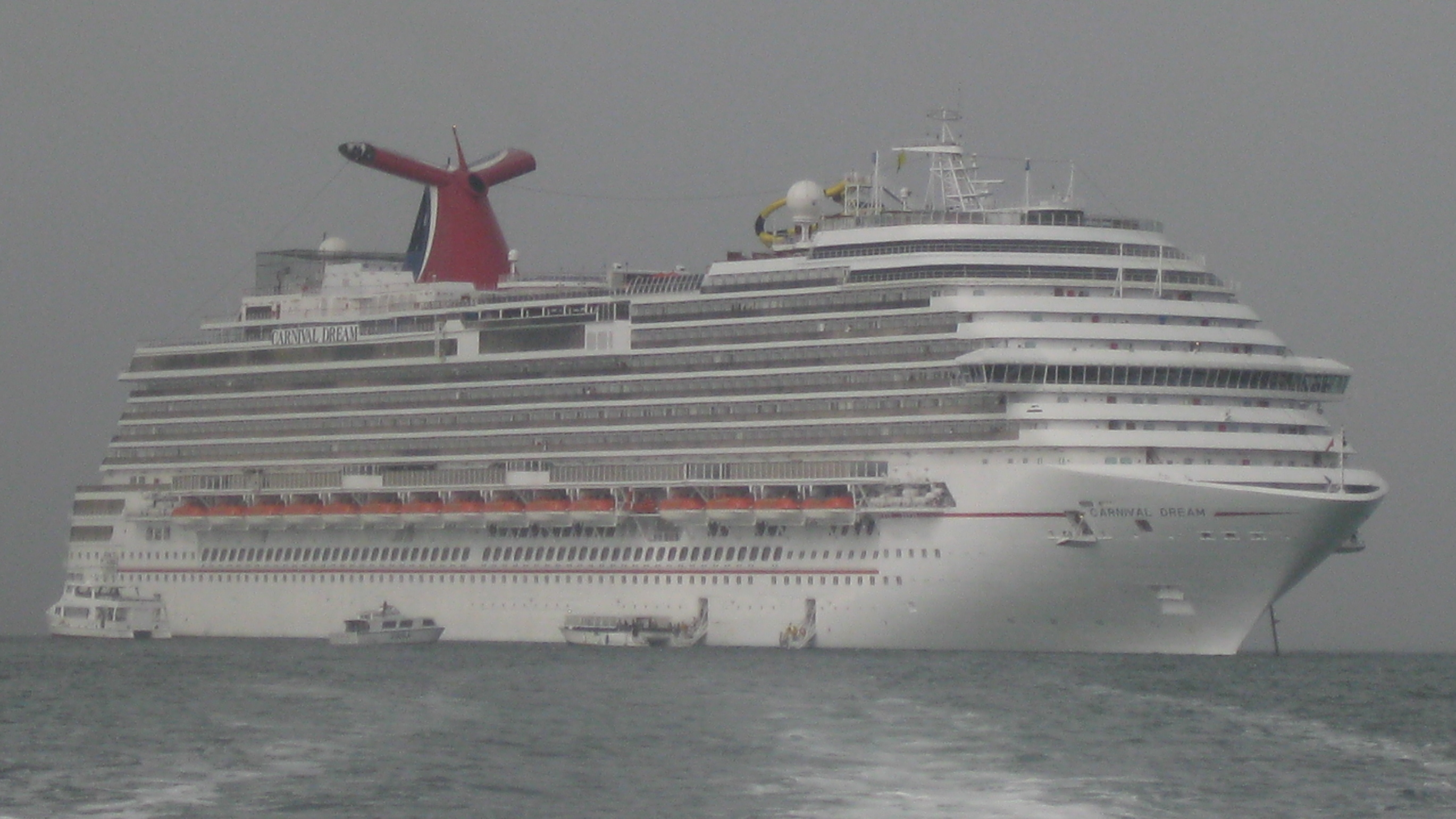 Carnival Dream anchored near Belize City, Belize